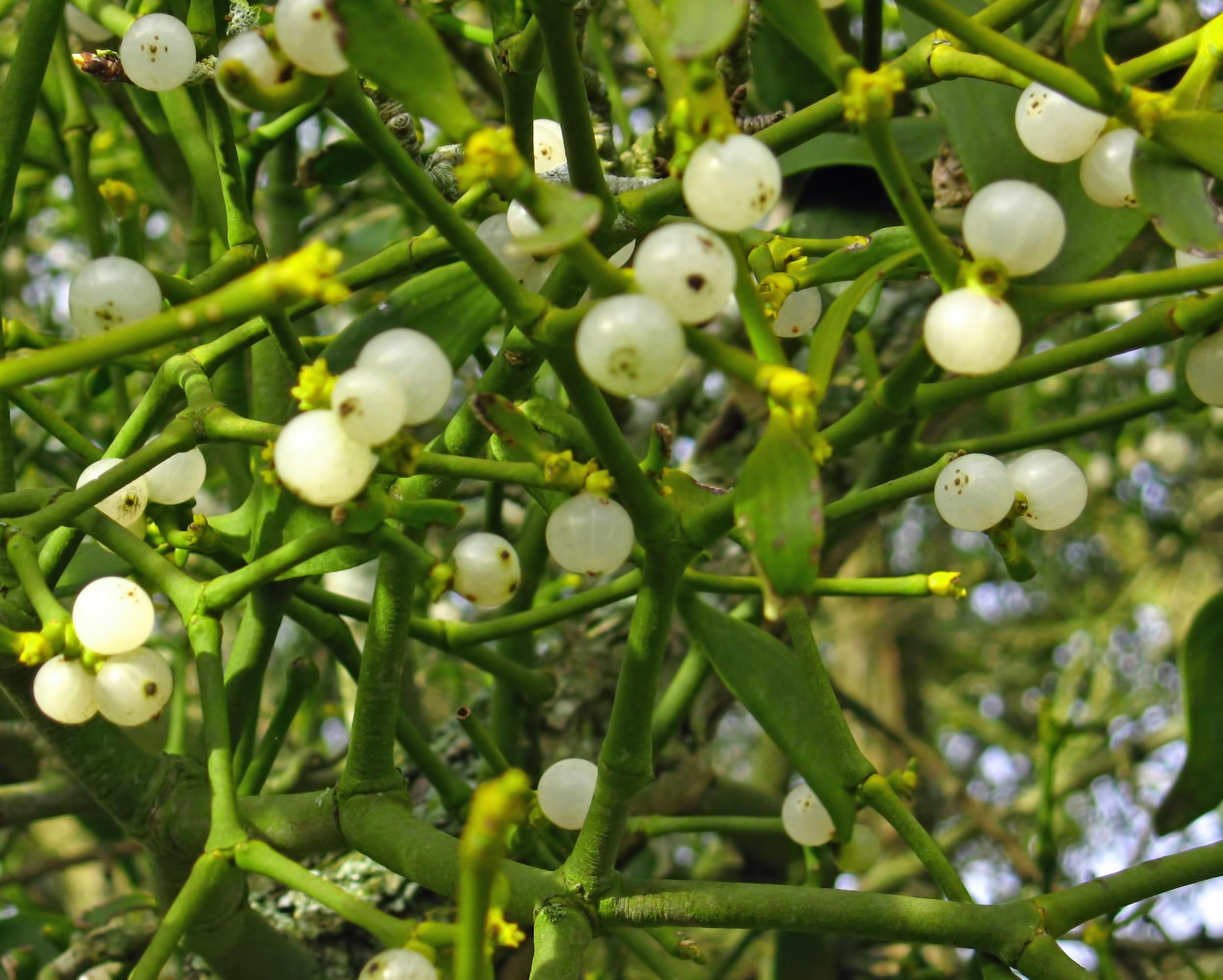 Mistletoe growing on a tree, showing white berries in medium close-up